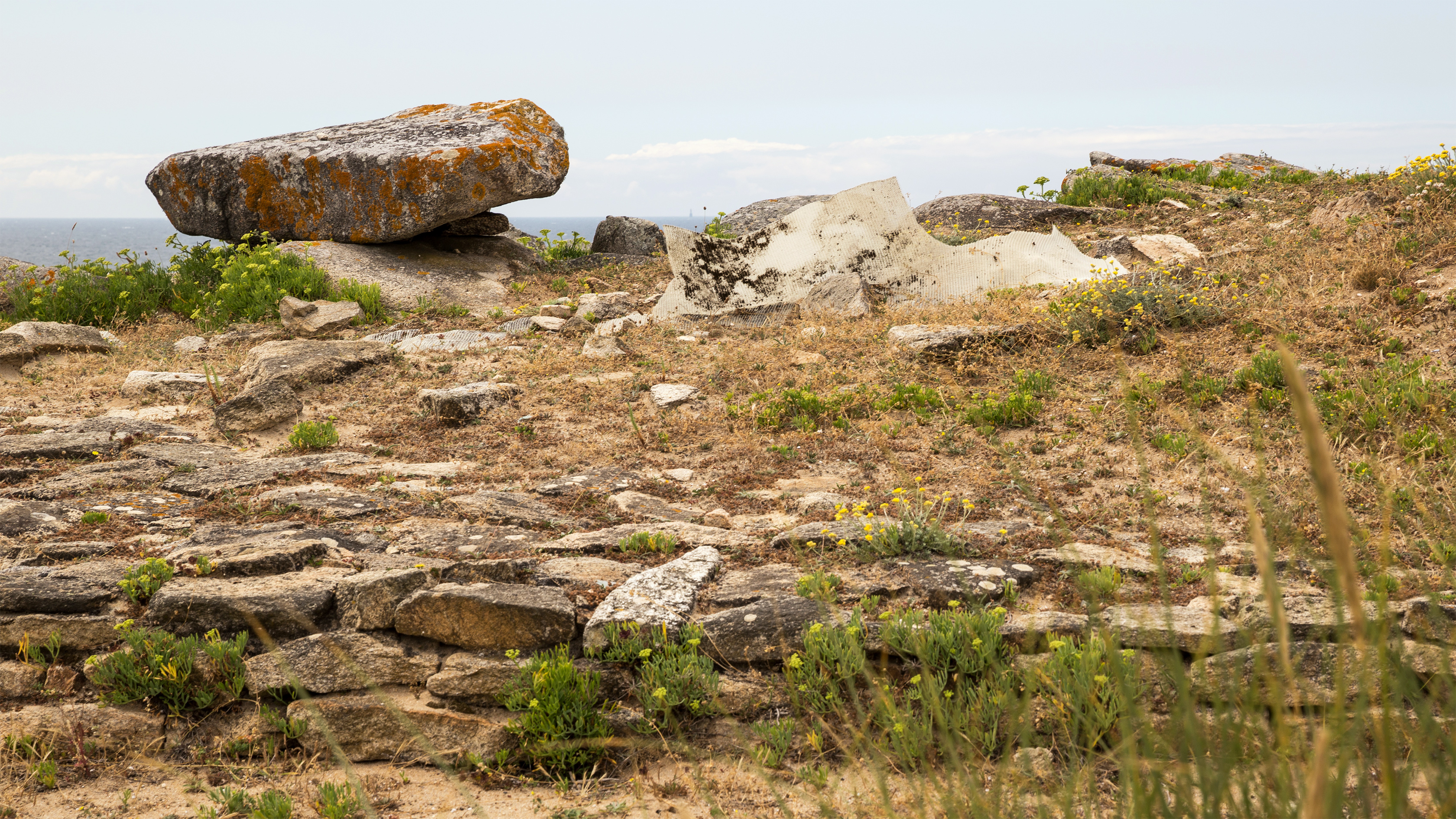 Dolmens of Port-Blanc (Porz Guen) in Brittany